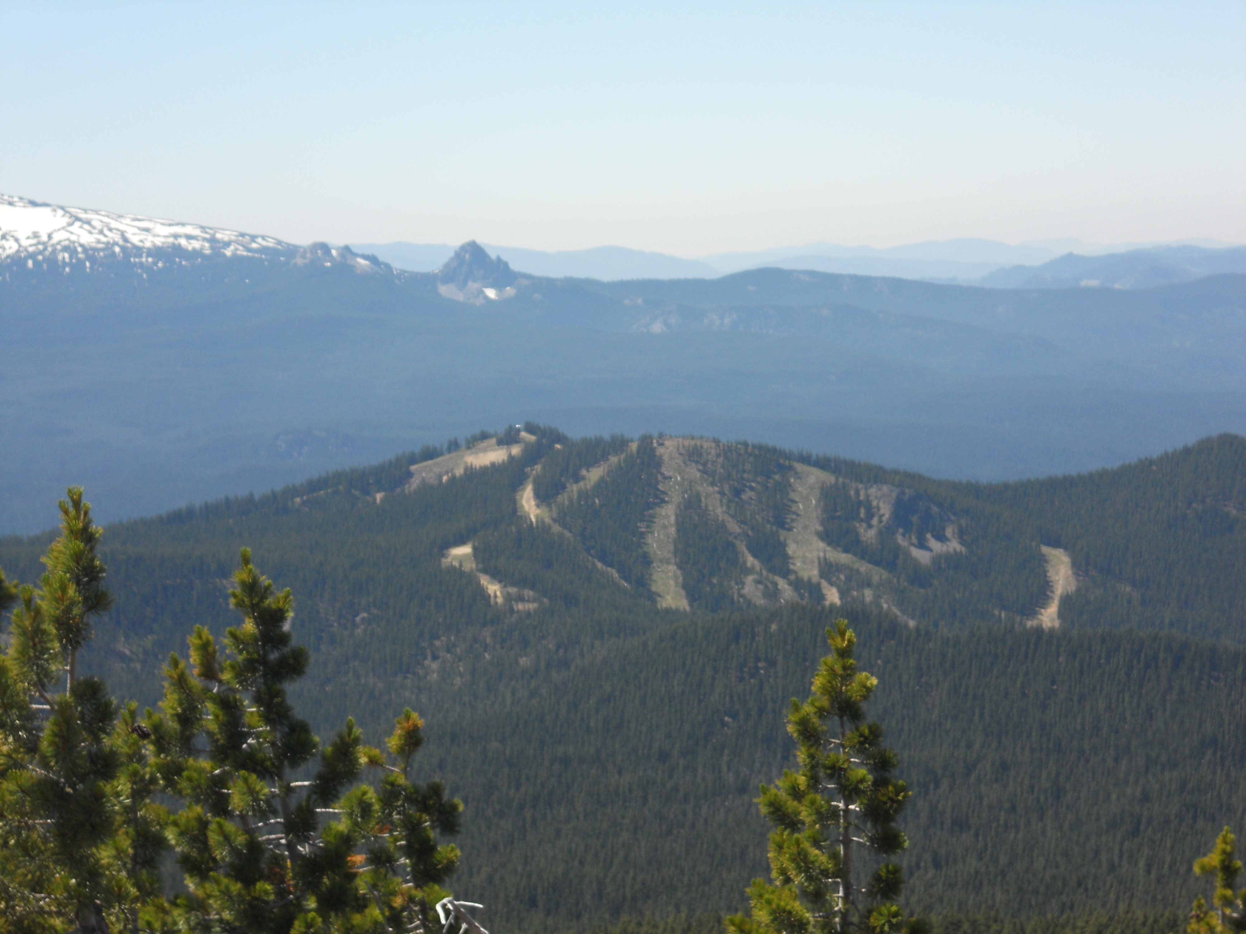 The view south from Maiden Peak of the Willamette Pass Resort ski area, with part of Diamond Peak and Mount Yoran not far behind